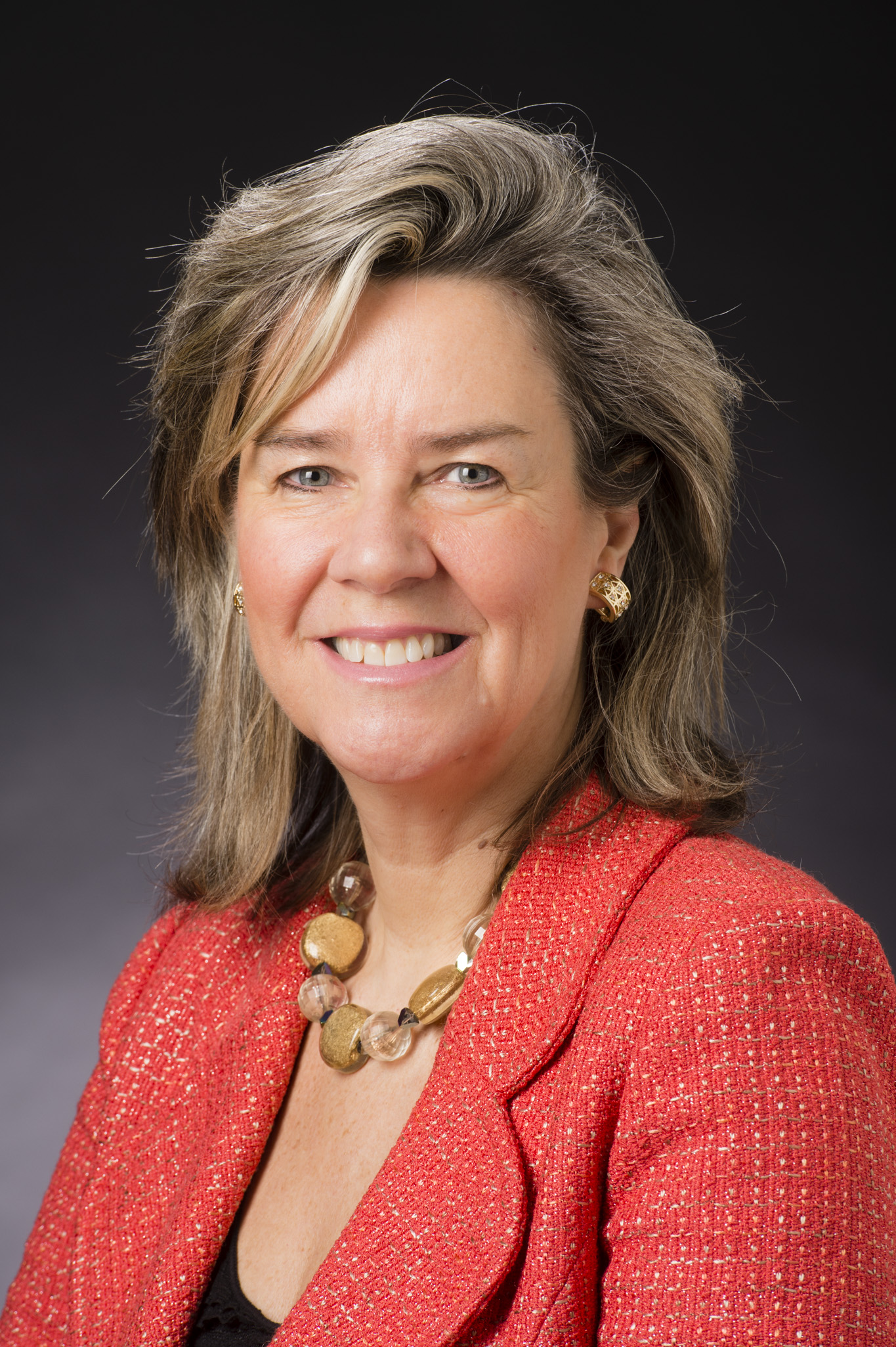 BOG, The Banff Centre 2015, Evaleen Jaager Roy